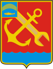 Roslyakovo (Murmansk oblast), coat of arms (1990)